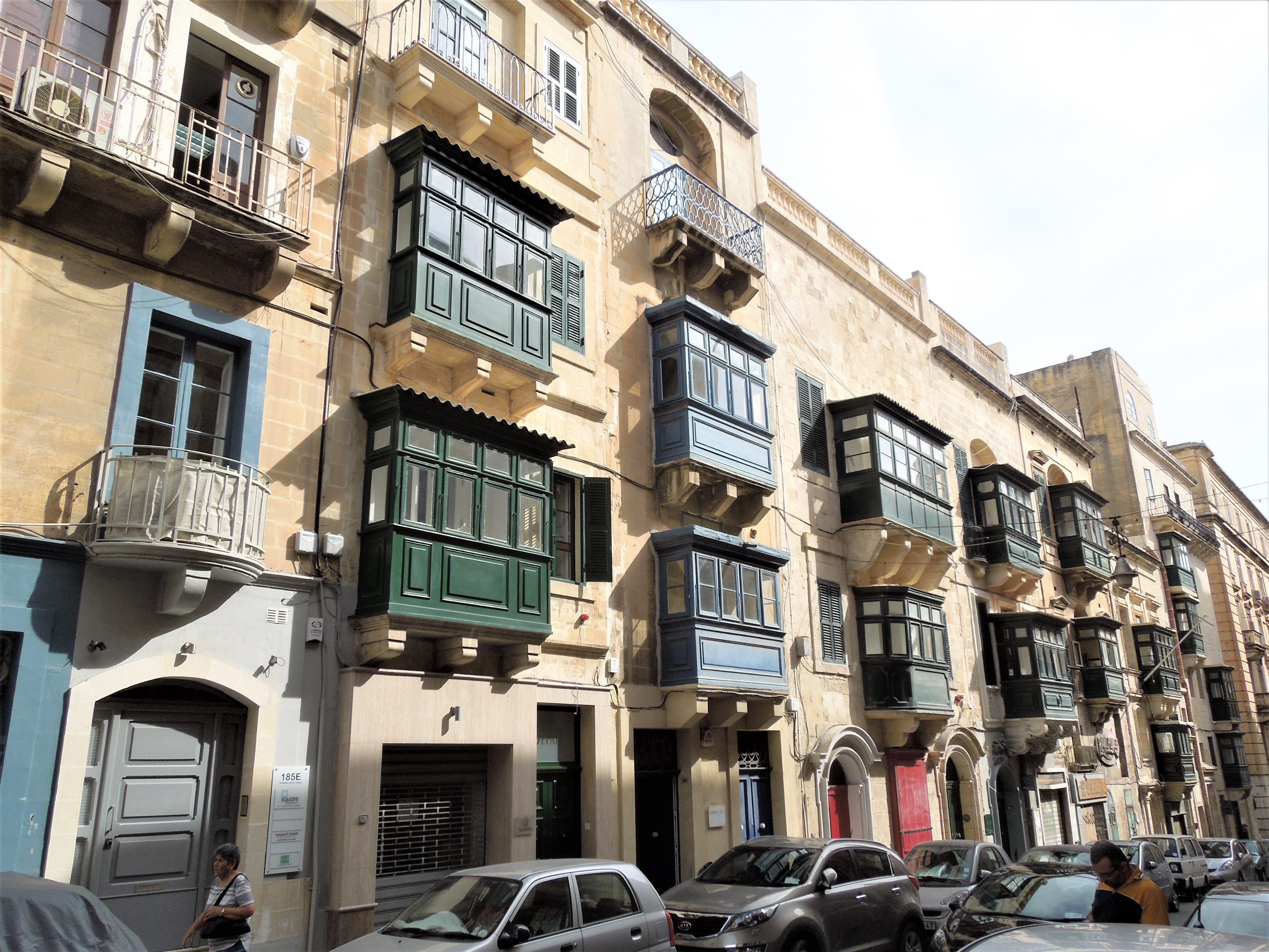 Valletta: houses and balconies on St. Paul Street